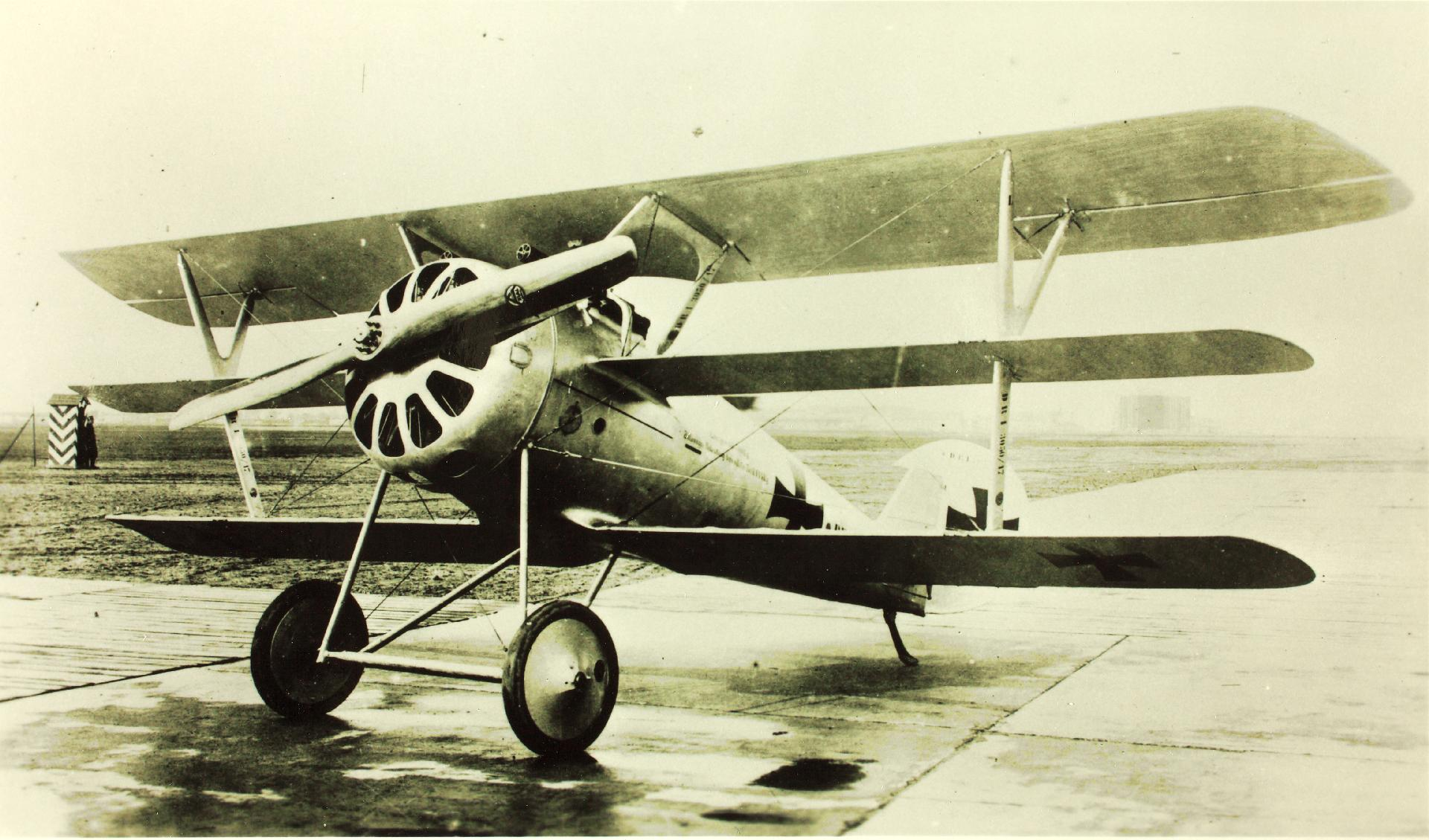 Pfaltz Dr. I triplane.